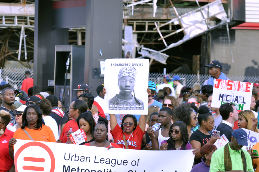 Signs.